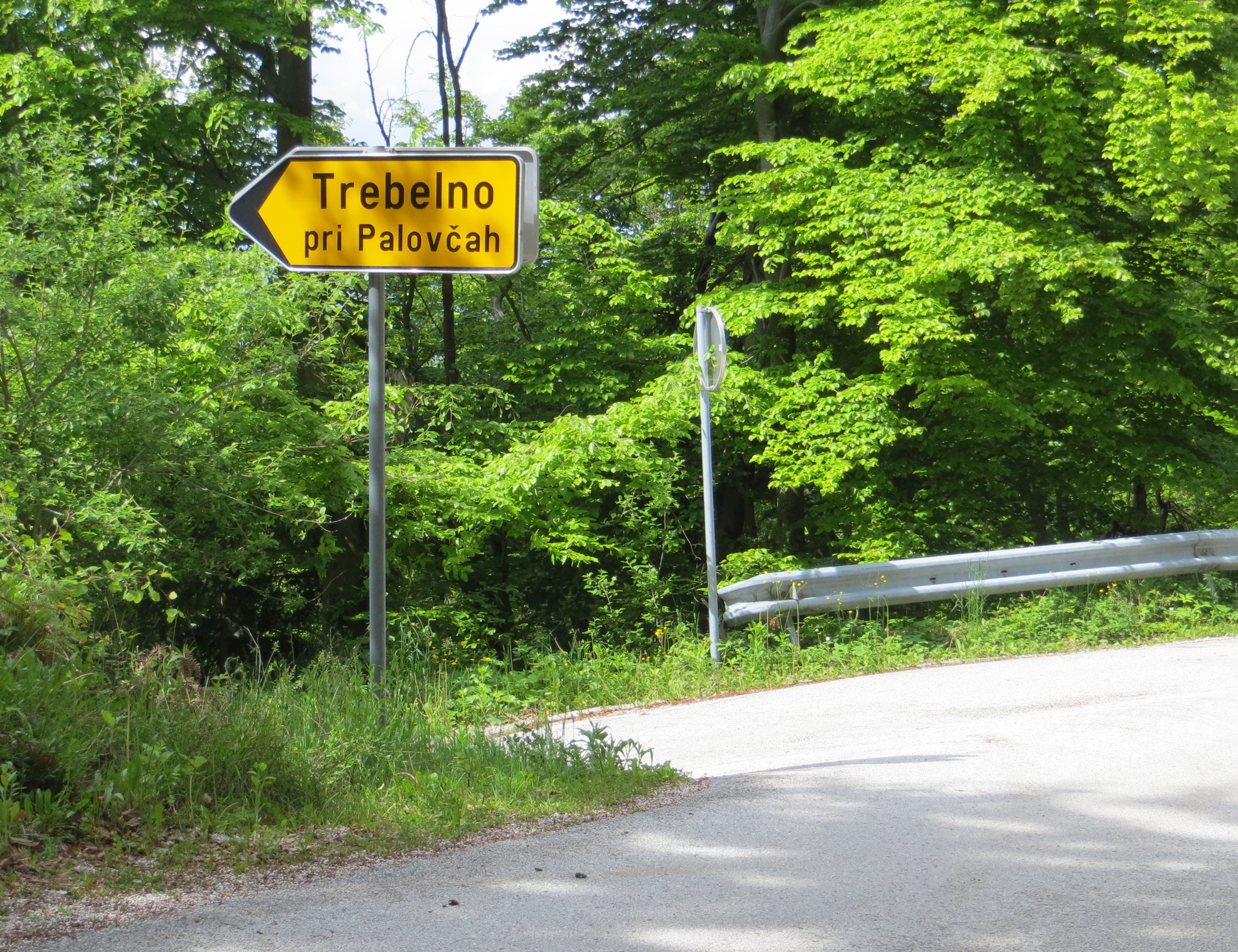 Turn to Trebelno pri Palovčah in Zgornje Palovče, Municipality of Kamnik, Slovenia